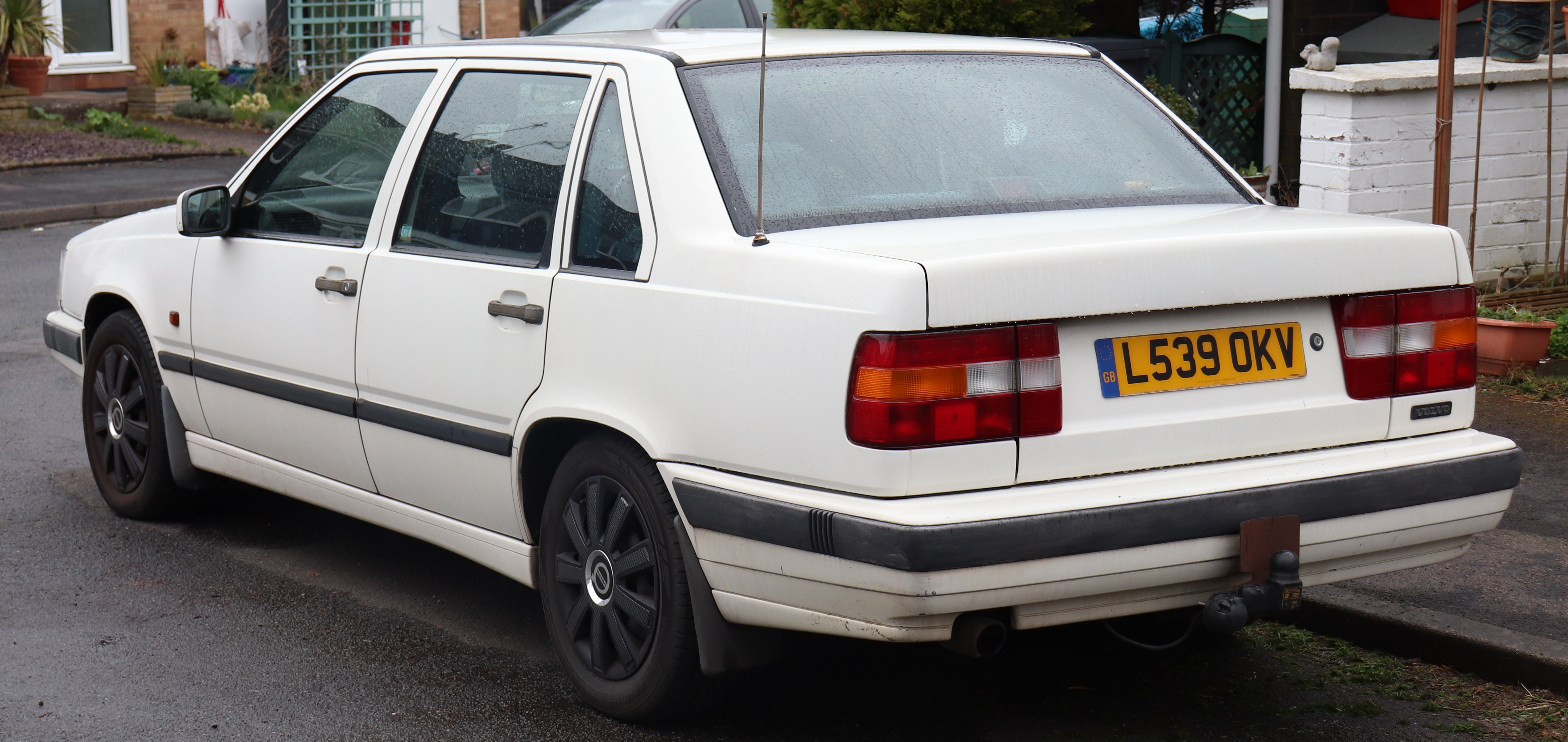 1993 Volvo 850 GLT Automatic 2.0 Rear Taken in Warwick